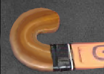 Head part of the 'Hook' manufactured by Grays circa 1986. The various laminations are clear in this sample because they are not well matched for colour.